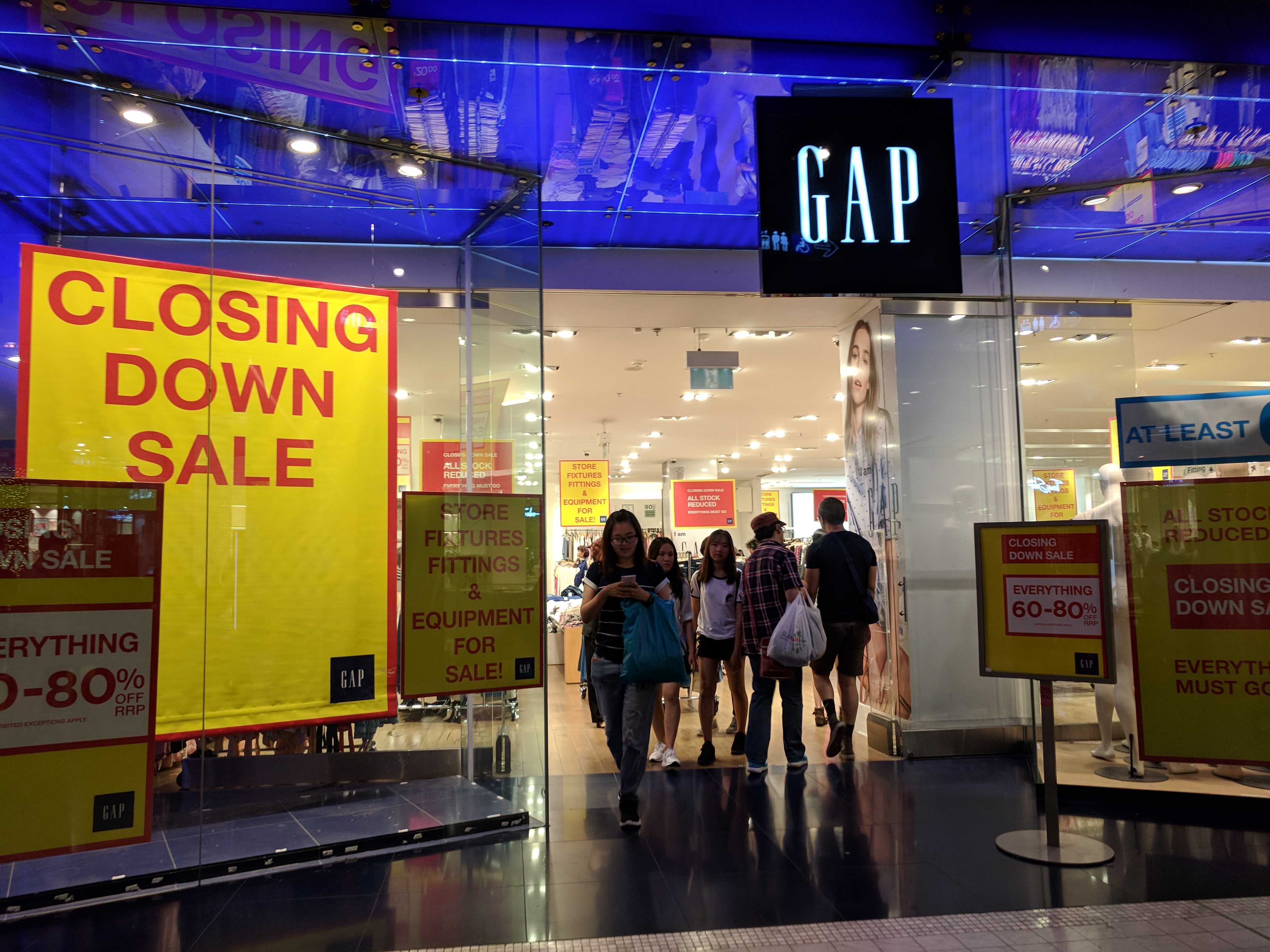 The Gap store in Westfield Sydney during its closing down sale. This formed part of the chain's closure in Australia.